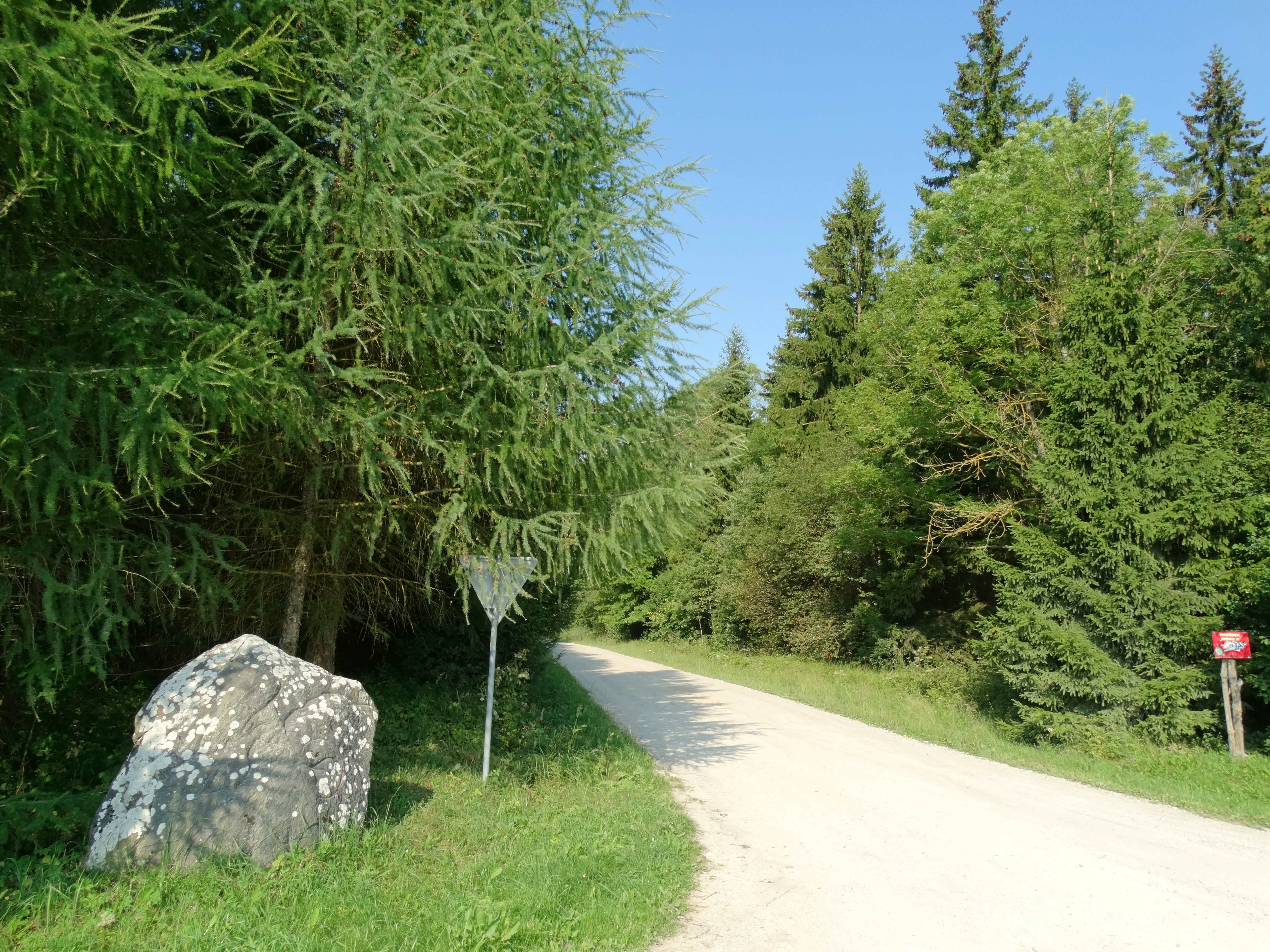 Stone by Reibiniškės forest, Joniškis District, Lithuania